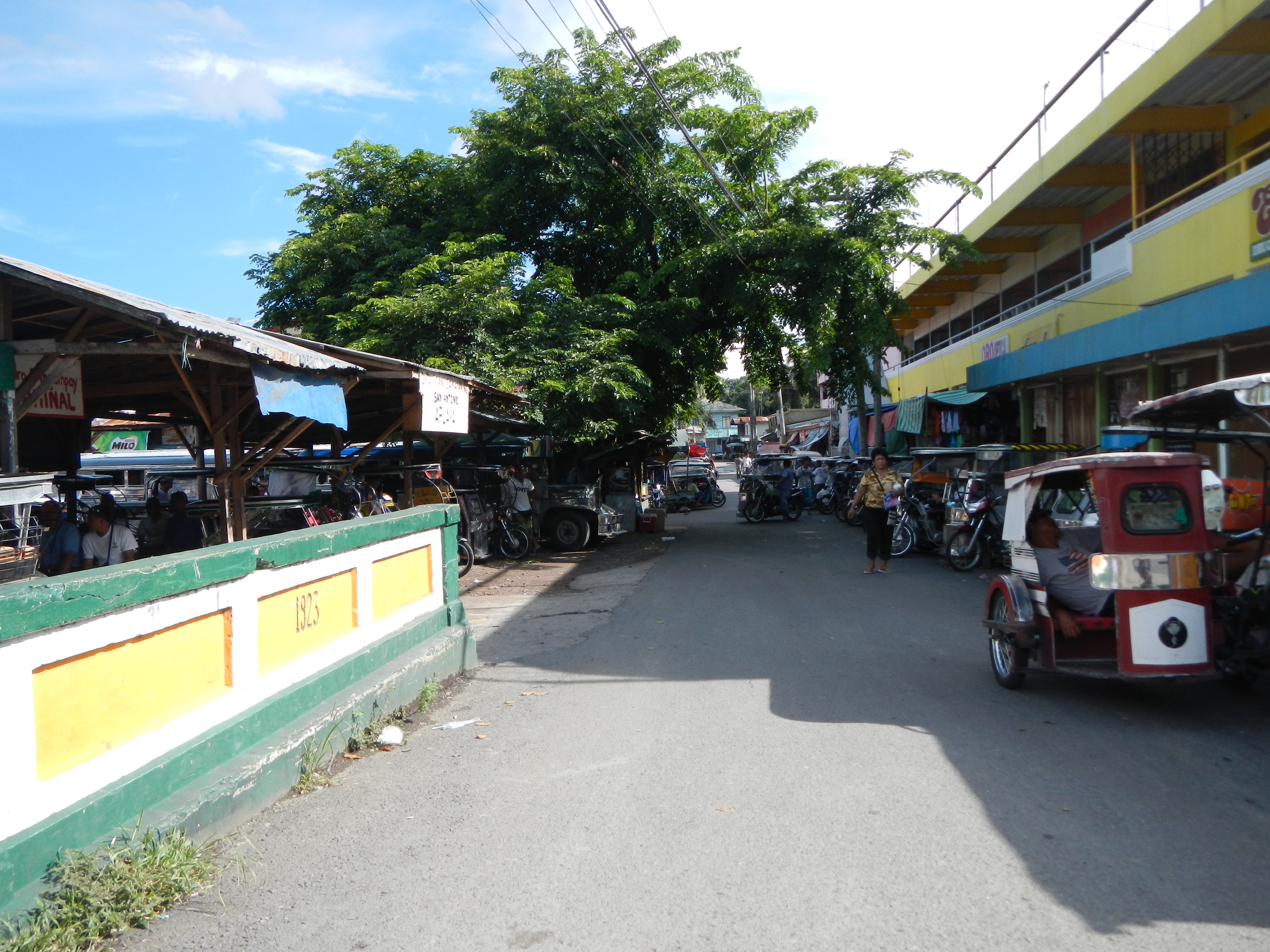 Upload wizard (rare, raw, unedited and original/own work) photos of Downtown business center and public market --- Bay, Laguna [1] is a second class[2] municipality politically subdivided into 15 barangays, one of the oldest towns in the province of Laguna[3], Philippines, covering even Los Baños [4] and Calauan[5]. In 1581, Bay became the capital of the Province of Laguna de Bay and remained so until 1688 when the capital was moved to Pagsanjan. The Patron of Bay is Saint Augustine of Hippo [6] celebrating his Feast Day during August 28. [7] Coordinates: 14°8'1"N 121°15'9"E [8] Laguna, Region 4, Philippines, Asia Geographical coordinates: 14° 10' 58" North, 121° 17' 5" East This place is situated in Laguna, Region 4, Philippines, its geographical coordinates are 14° 10' 58" North, 121° 17' 5" East and its original name (with diacritics) is Bay. LLDA [9]